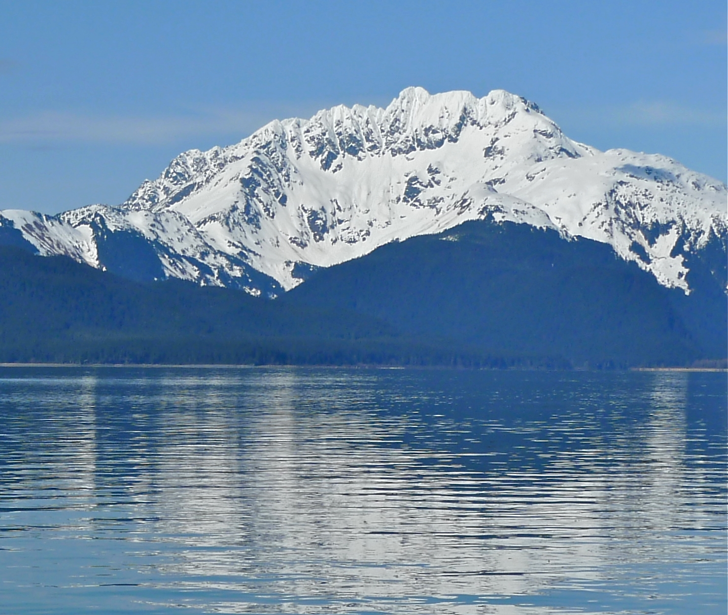 Lions Head Mountain from Lynn Canal